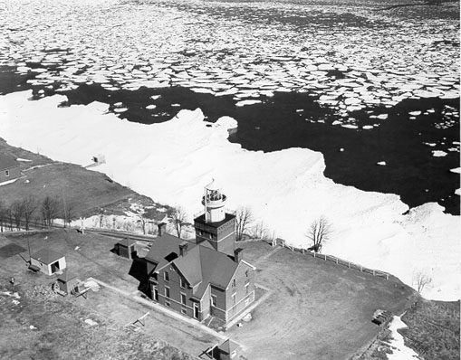 The Big Bay Lighthouse